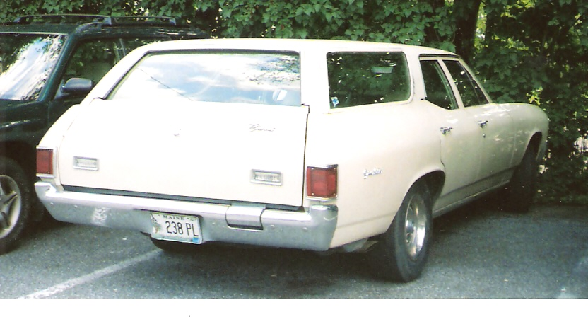 1971 Chevrolet Chevelle Greenbrier station wagon I photographed in Merrimac, Massachusetts in July 2008.